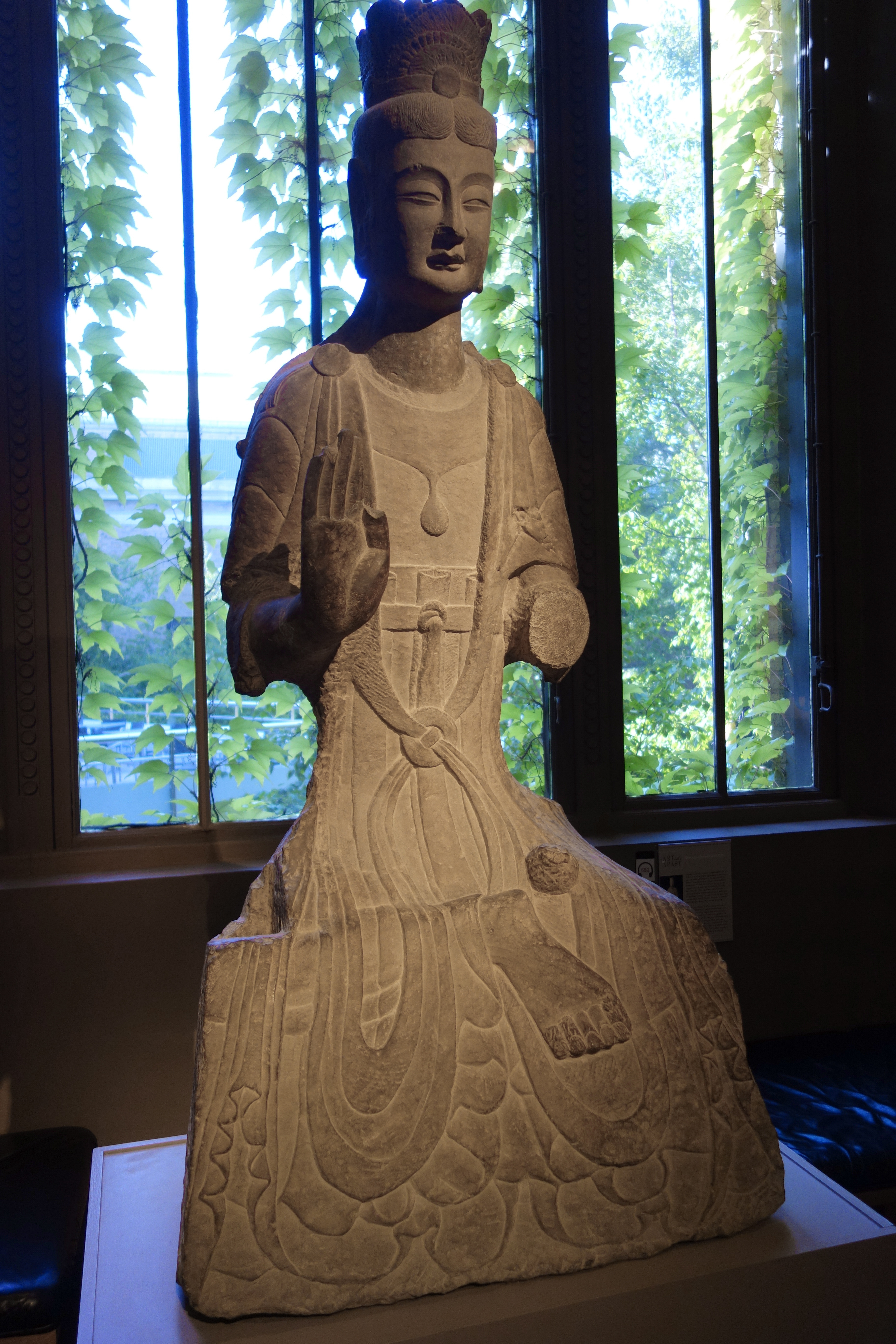 Seated bodhisattva, excavated from the White Horse Monastery, Luoyang, Henan, China, c. 530 AD, Eastern Wei dynasty 534-550 or Northern Wei dynasty 386-534 AD. limestone - Museum of Fine Arts, Boston, Massachusetts, USA. This artwork is in the public domain because the artist died more than 70 years ago.